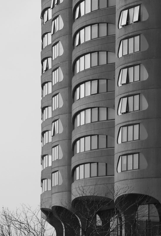 Photograph by Serhii Chrucky, Chicago, Illinois, 2007.